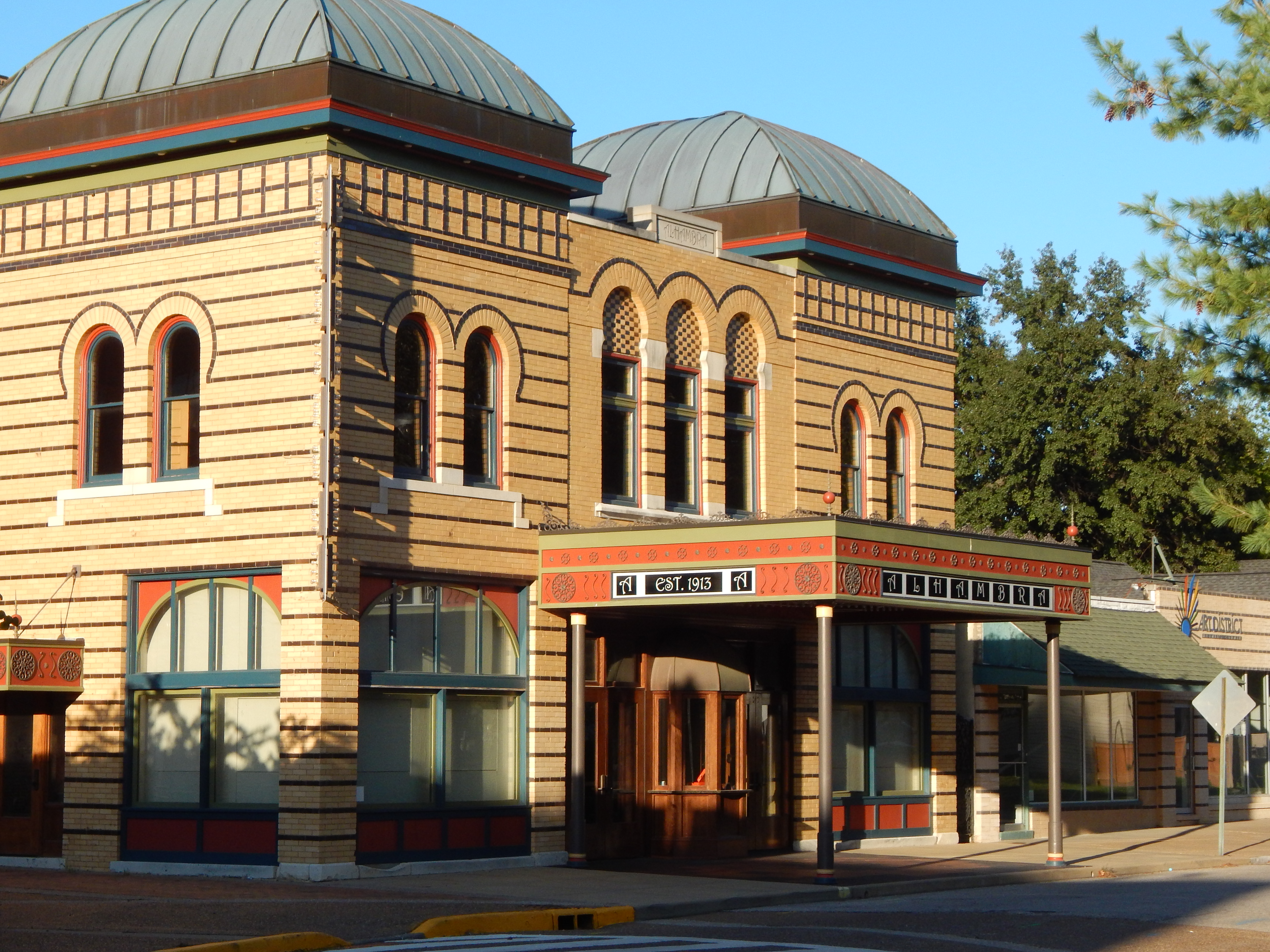 haynies corner in Evansville indiana